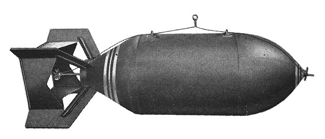 US light case bomb, 4000 Lb (1920 kg, containing 1470 kg Amatol)